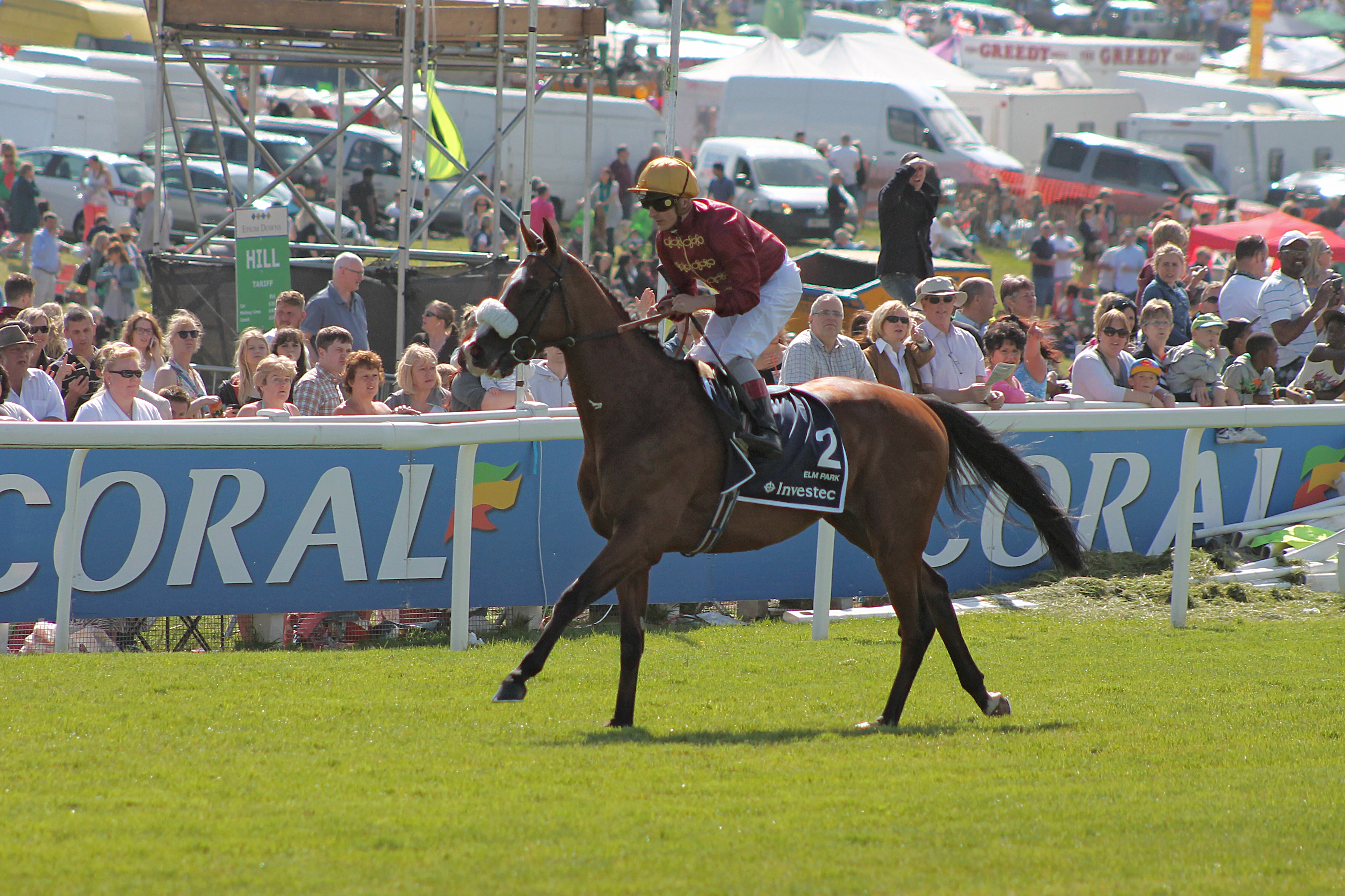 029 Epsom Derby 2015 - Elm Park and Andrea Atzeni going to post Epsom Derby